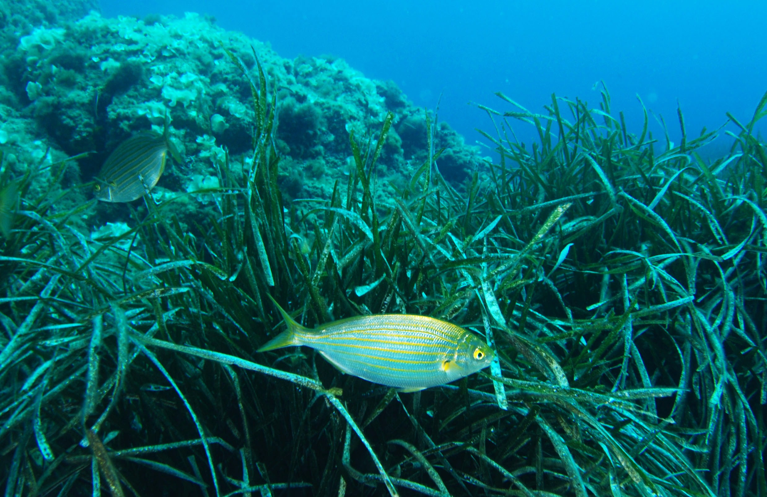 Boops Boops